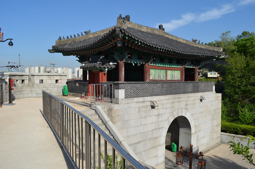 Hyehwamun Gate, also known as Northeast Gate or Dongsomun, Seoul, South Korea. Photographed May 5, 2012. Photo taken from the rear, showing upper wooden gatehouse.